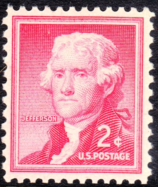 Thomas_Jefferson_Regular_Issues_1954-2c.jpg